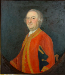 John Winslow By Joseph Blackburn